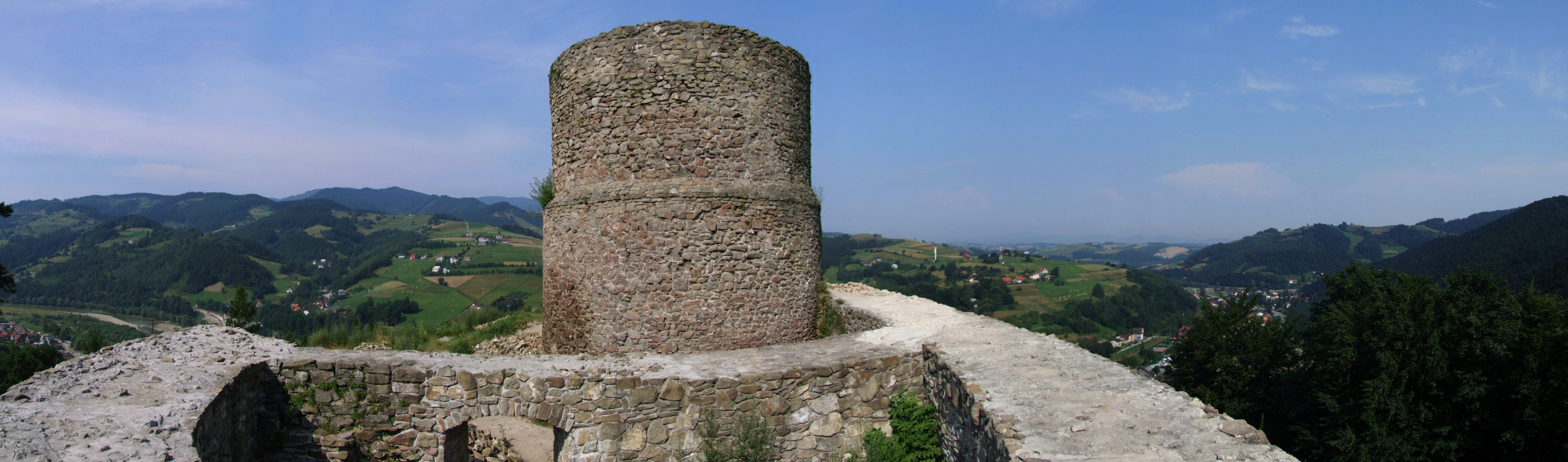 Rytro Castle